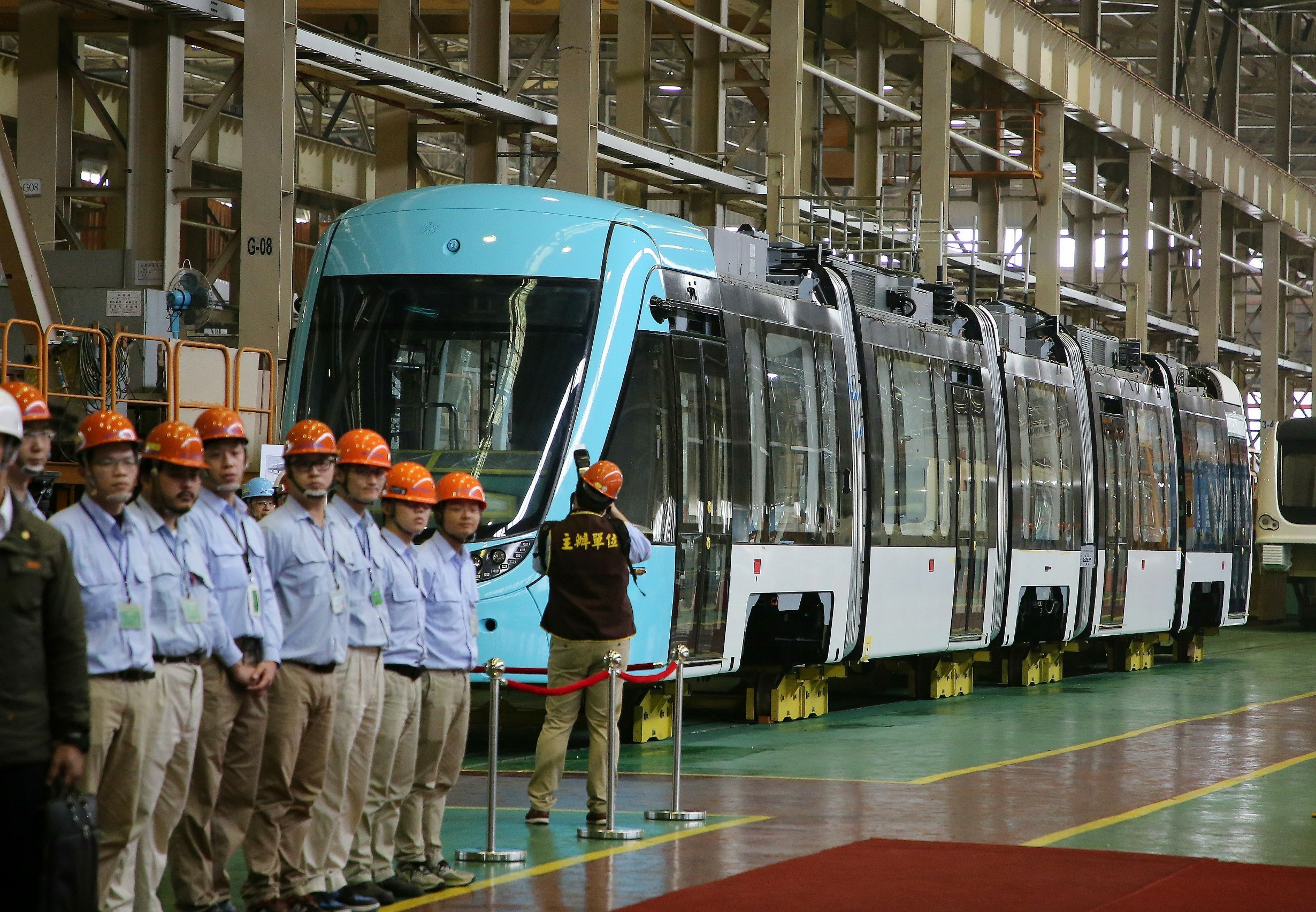 授權方式及範圍：中華民國總統府│政府網站資料開放宣告 Authorization Method & Scope: Office of the President, Republic of China (Taiwan) | Government Website Open Information Announcement